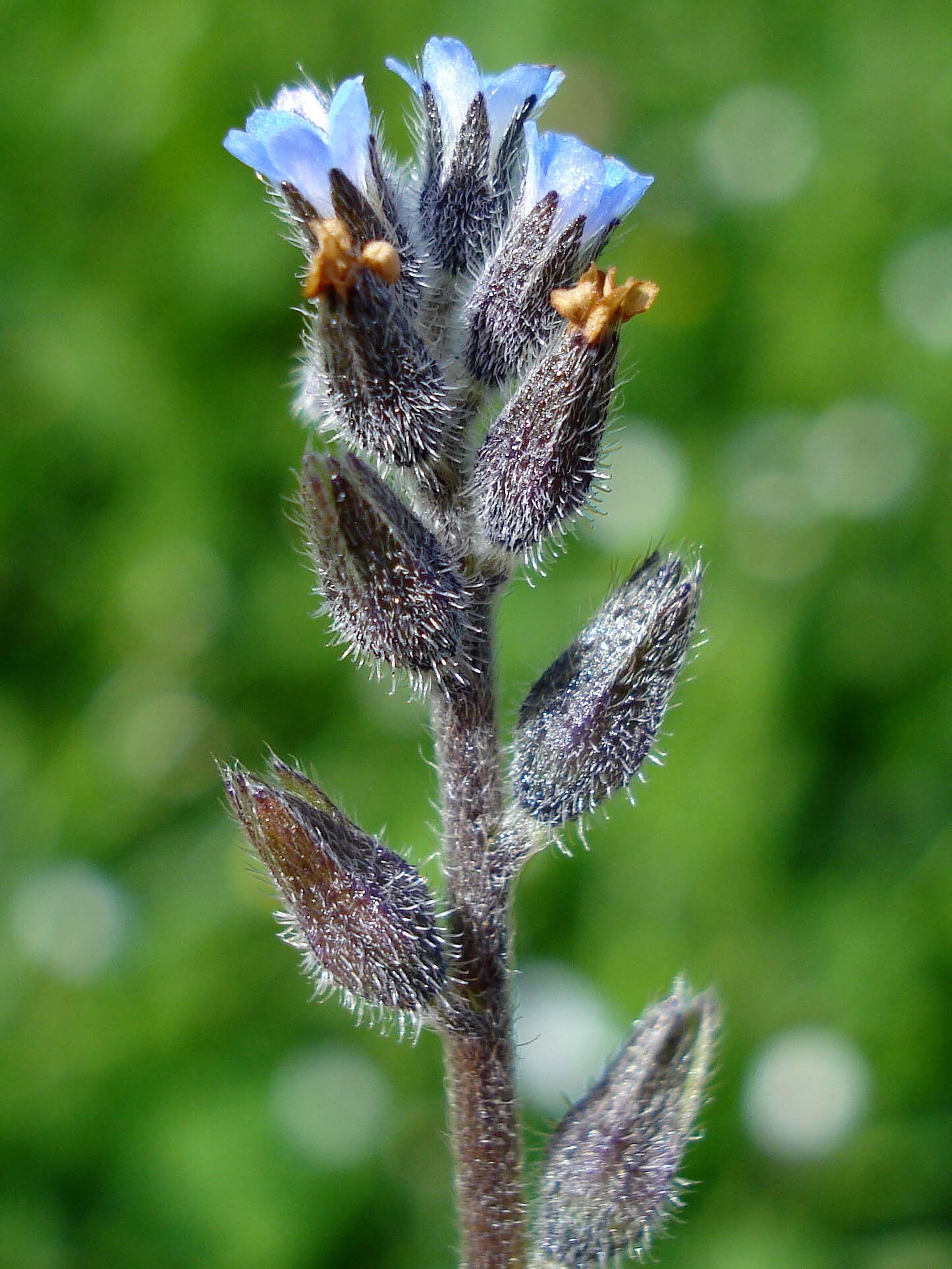 Myosotis stricta (Unterfranken, Germany)